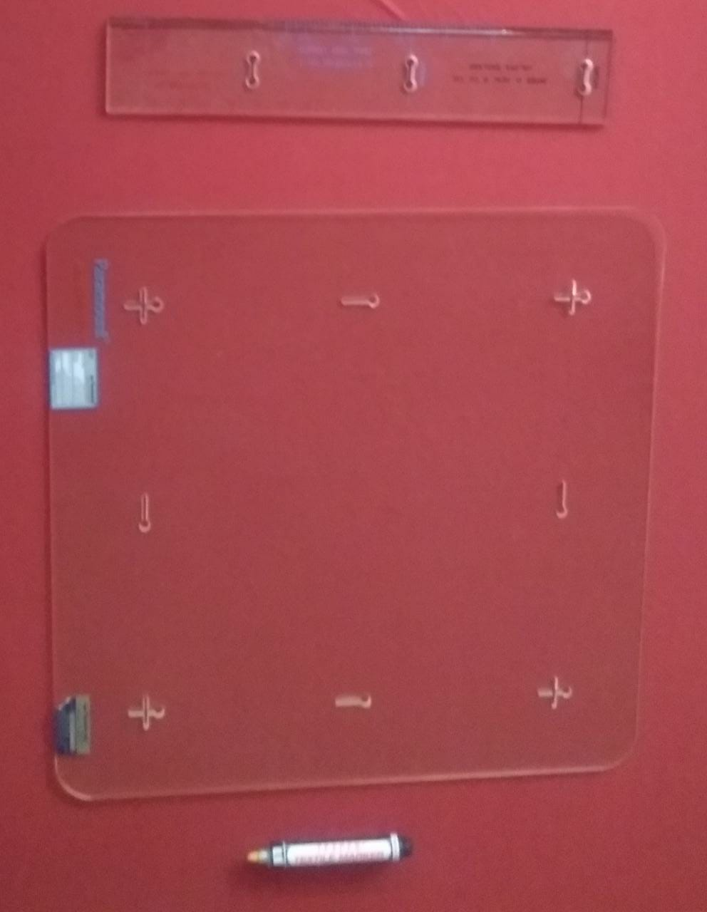 Shrinkage measuring template, Scale, and Permanent fabric marker